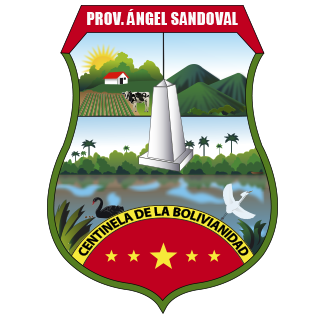 Escudo Angel Sandoval